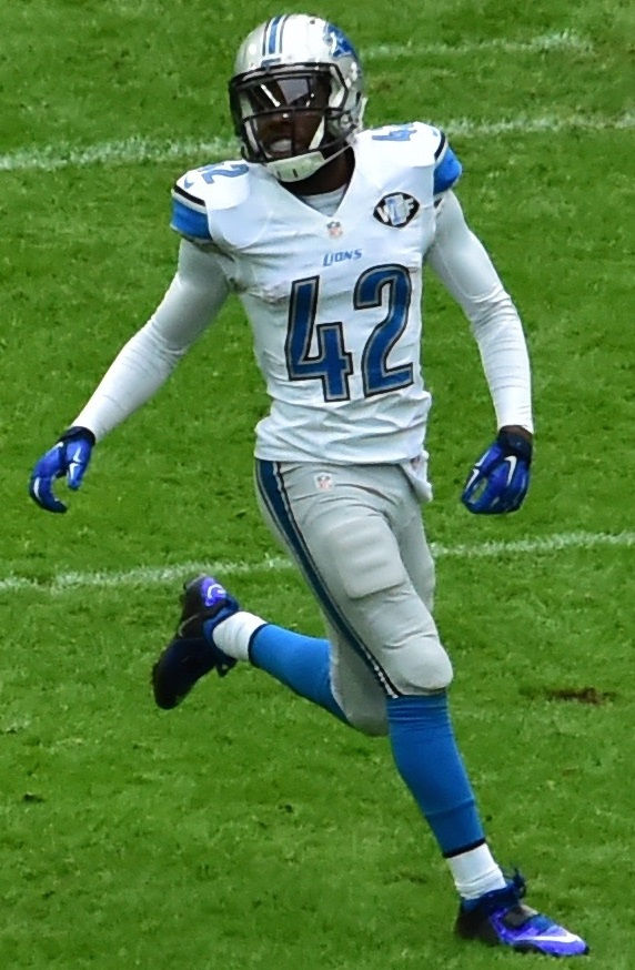 Detroit Lions vs Atlanta Falcons - Wembley 2014